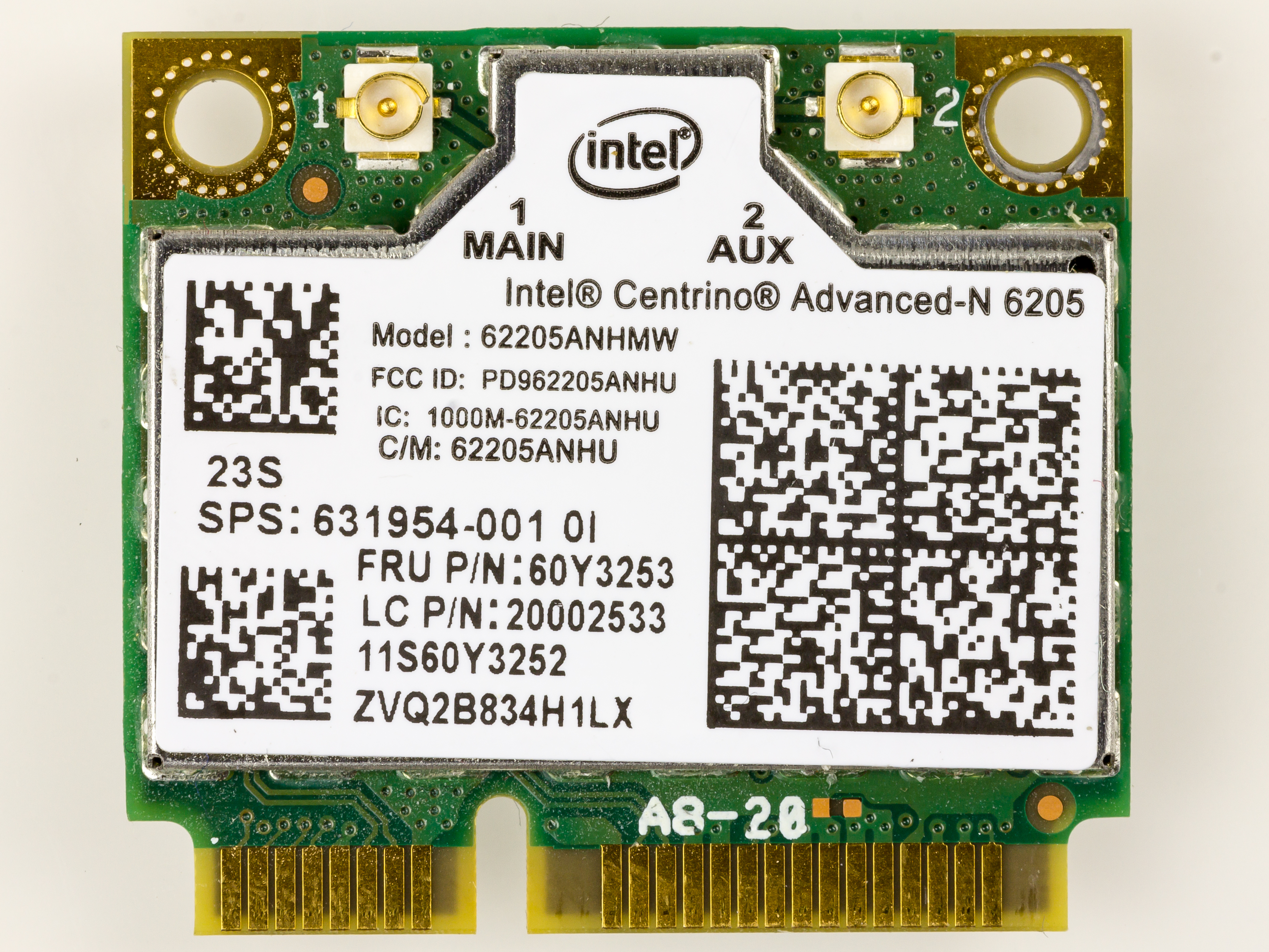 Intel Centrino Advanced-N 6205 - WiFi Half Mini PCI-E Card